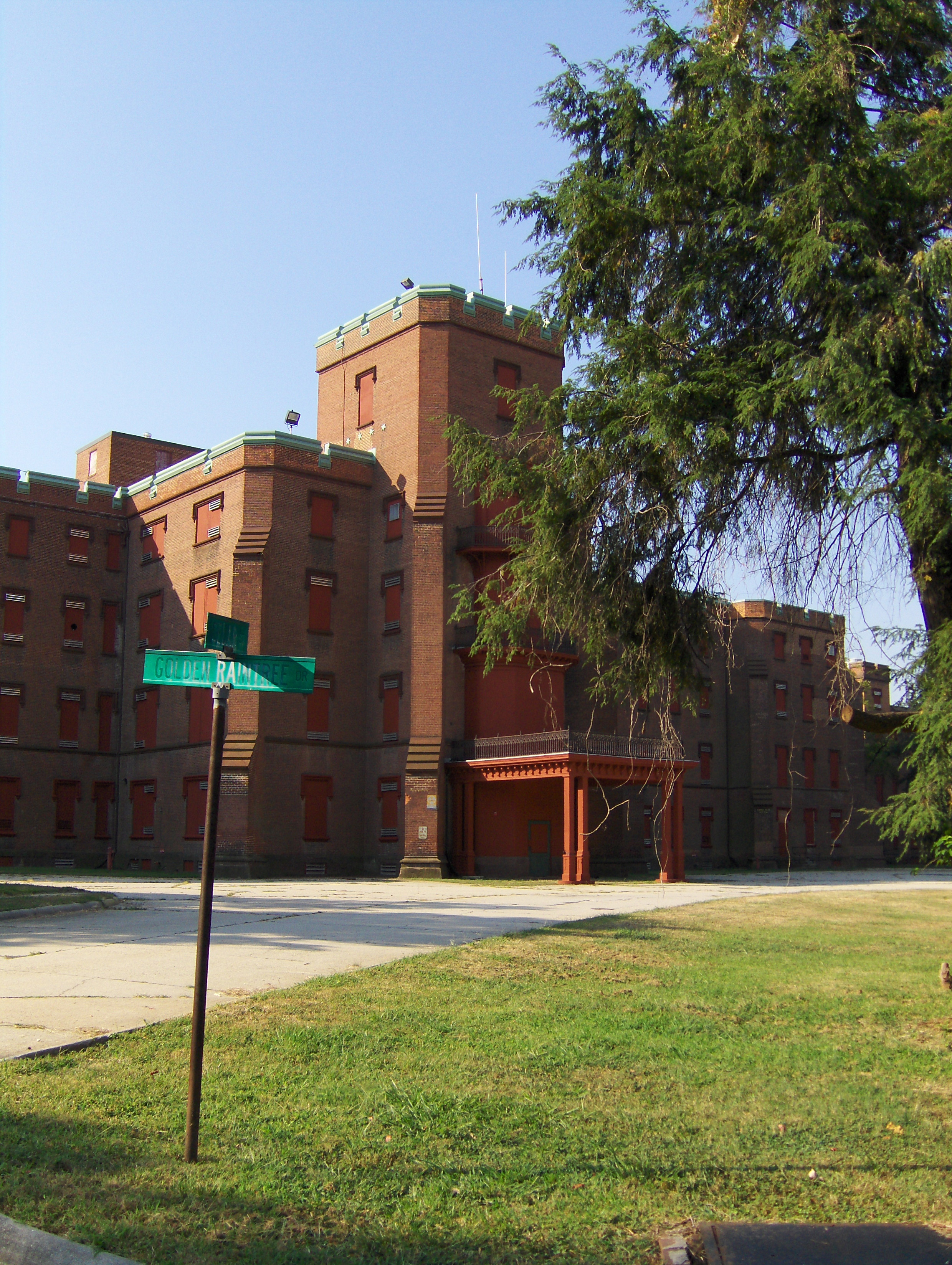 The Center Building at St. Elizabeths Hospital in Washington, D.C. Like most buildings at St. Elizabeths, this one has been abandoned. The Center Building is one of the oldest buildings on the campus, dating to the American Civil War era.